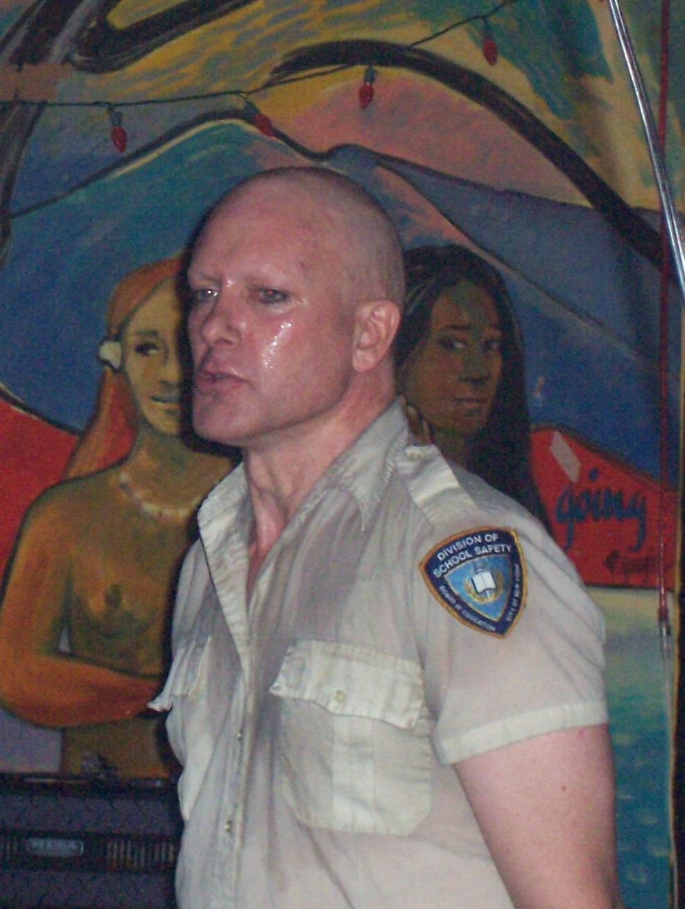 taken in Washington D.C. club Chief Ike's Mamba Room